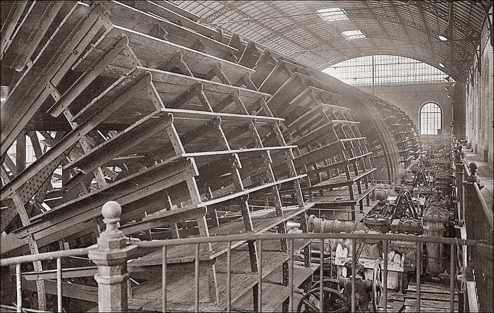 Marly Machines. Hydraulic Machine of Dufrayer stopped.